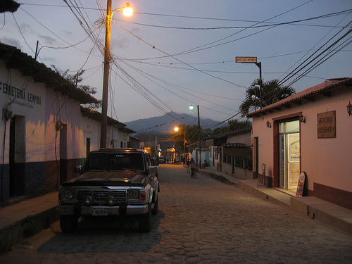 Photo of Gracias, Lempira, Honduras. Taken by Alexander Steffler.